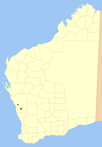 Map of Banksia scabrella based on distribution data from WA Herbarium and Banksia Atlas: Taylor, Anne; Hopper, Stephen (1988) The Banksia Atlas (Australian Flora and Fauna Series Number 8), Canberra: Australian Government Publishing Service, p. 207 ISBN: 0-644-07124-9. The distribution data has been superimposed on File:Western Australia land districts blank.png.